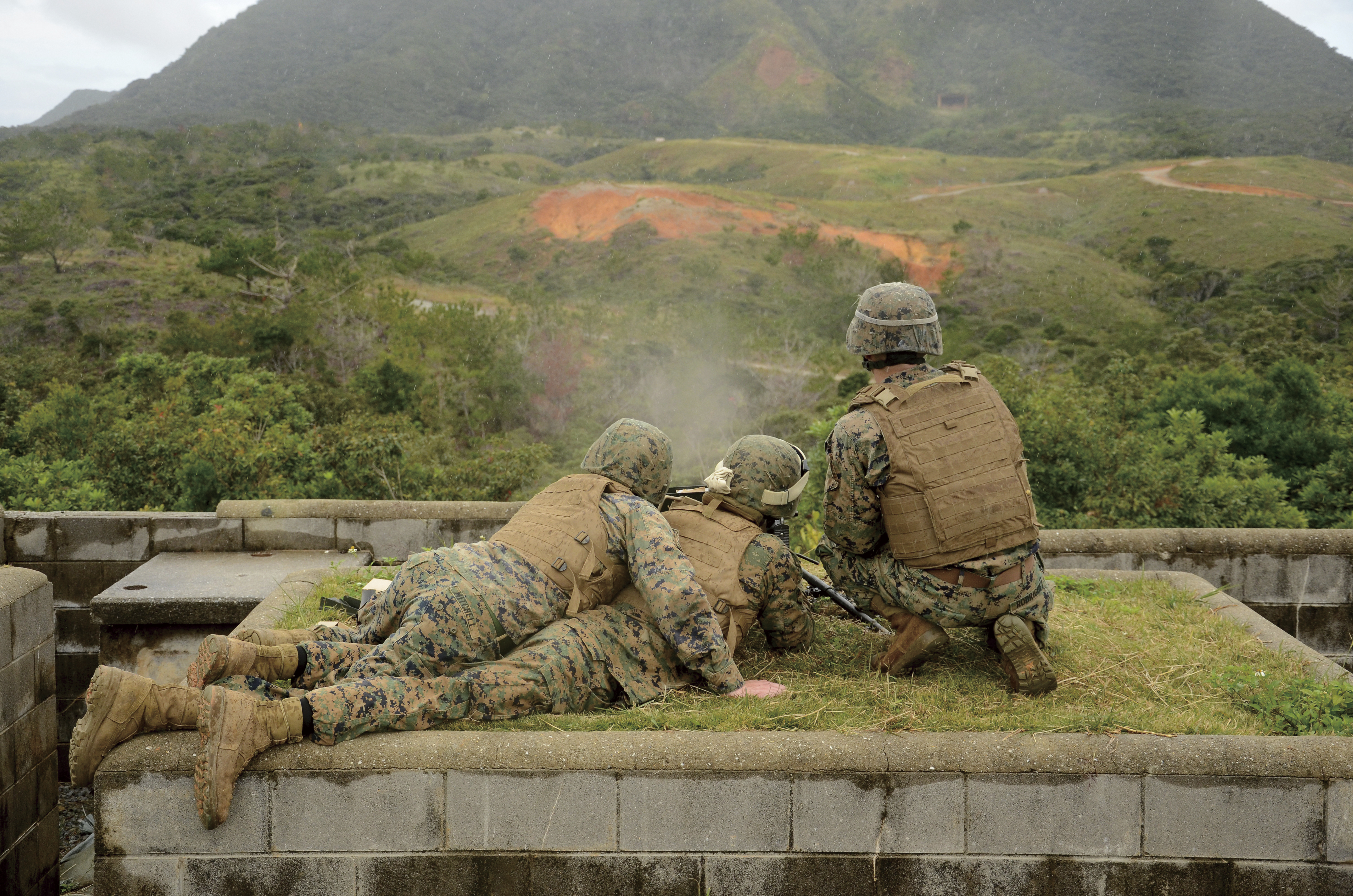 Marines engage unknown-distance targets using the Machine Gun Day Optic and Ruggedized Miniature Reflex Sight on the M240G medium machine gun at Range 10 on Camp Schwab recently. III Marine Expeditionary Force Public Affairs Photo by Pfc. Mark Stroud Date Taken:12.13.2010 Location:CAMP SCHWAB, 47, JP Related News and Photos